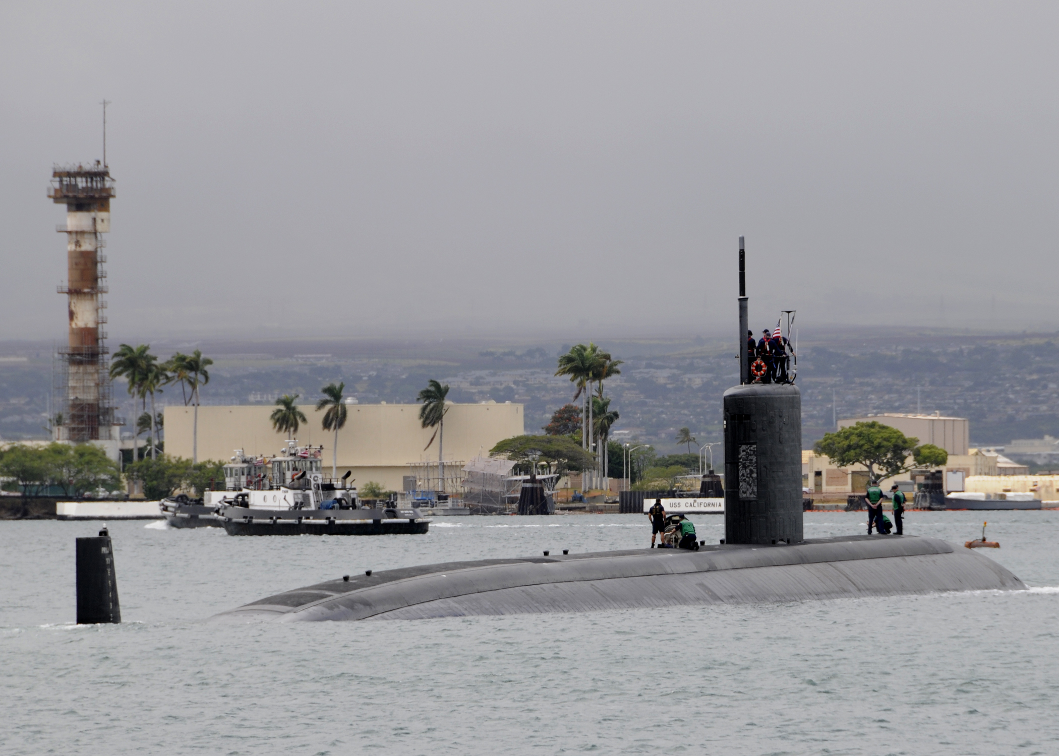 PEARL HARBOR (April 1, 2011) The Los Angeles-class submarine USS Cheyenne (SSN 773) departs Joint Base Pearl Harbor-Hickam for a six-month deployment to the western Pacific Ocean. (U.S. Navy photo by Mass Communication Specialist 2nd Class Ronald Gutridge/Released)